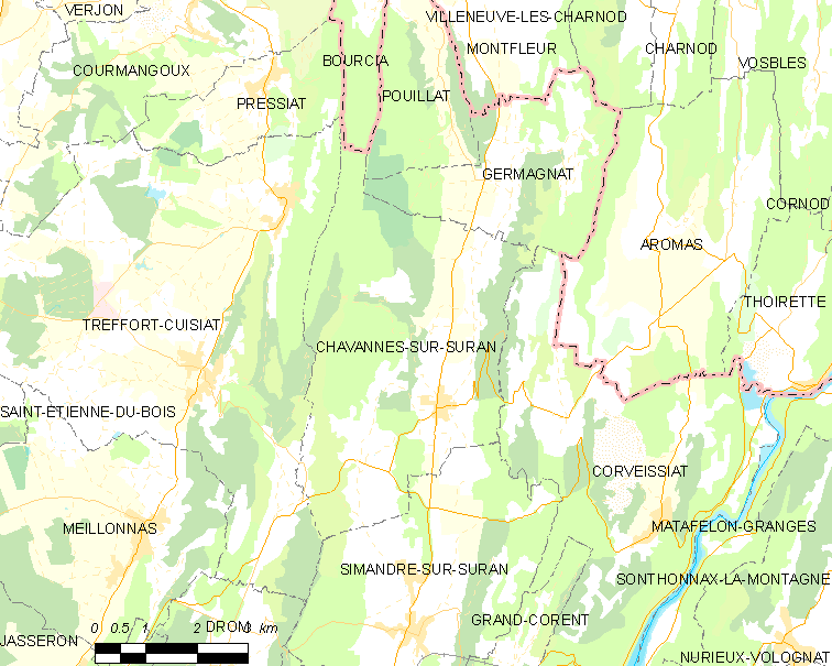 Map of French commune: Chavannes-sur-Suran Map commune FR insee code 01095.png